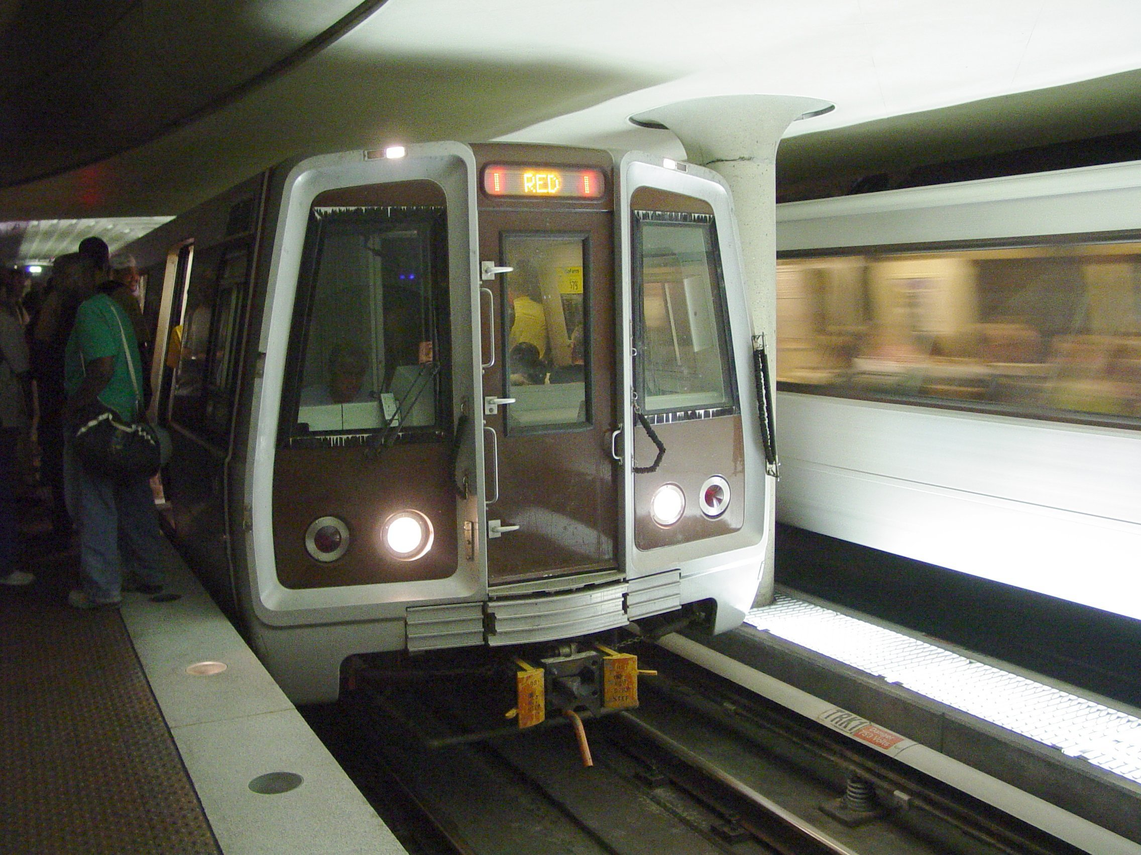 A Red Line train on the Washington DC underground at Metro Center, photographed by Ben Schumin on August 4, 2004. Uploaded to en: by User:Schuminweb on June 2, 2005 and licensed under GFDL